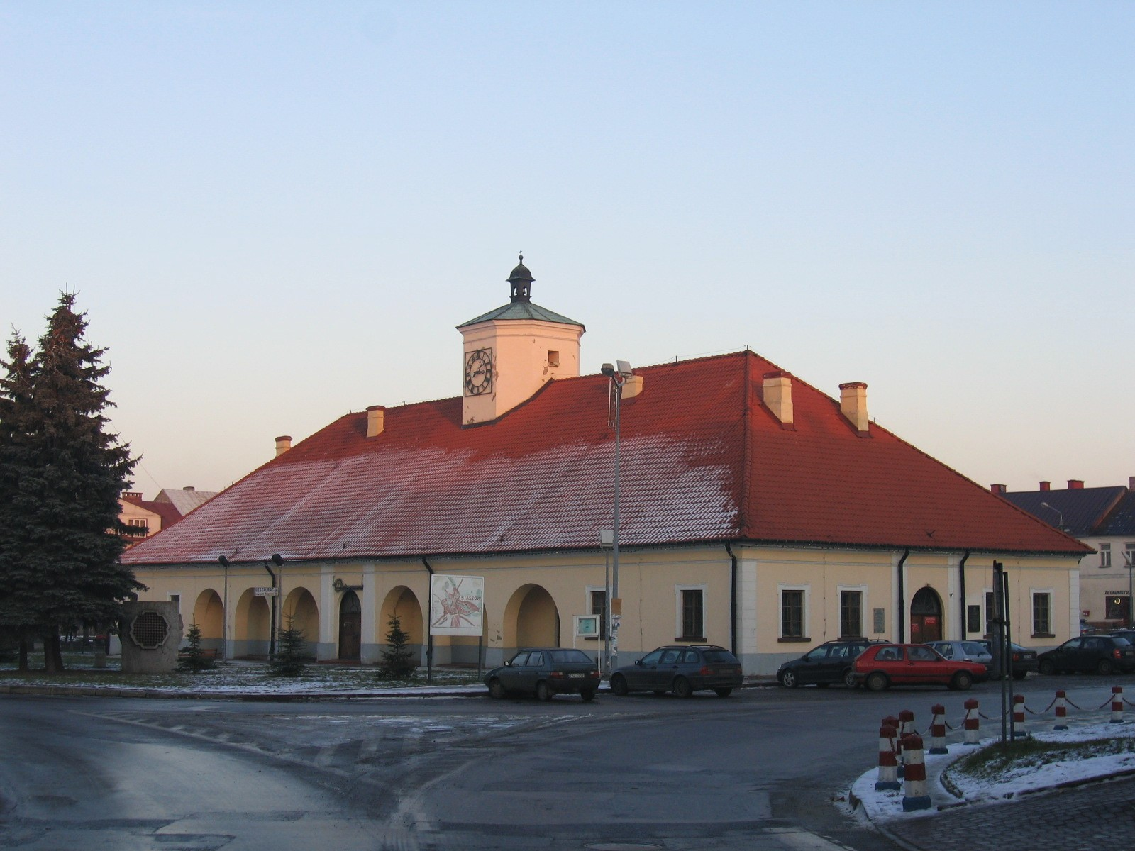 Old Town Hall at the centre of the City Square in Staszów, Poland.